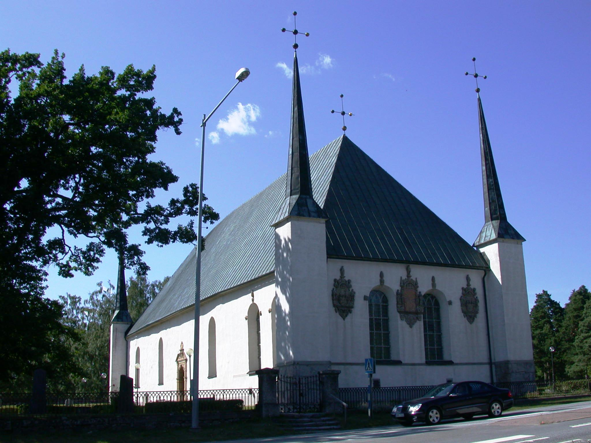 Björklinge church, Uppsala, Sweden. Photo by Riggwelter, July 16, 2006.